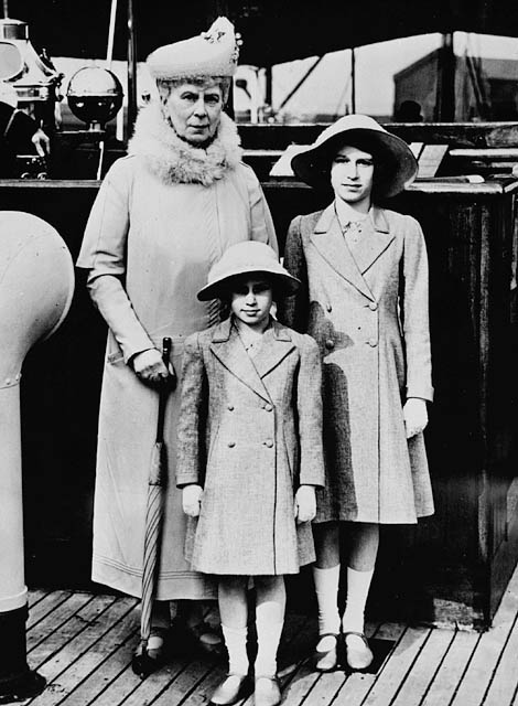 This is an image of Queen Mary with her granddaughters, Princess Elizabeth and Margaret - Queen Mary touring London's dockyard area with Princesses Elizabeth and Margaret Rose, May 1939. Accession No.: 1976-005 Credit: Federal News Photos / Library and Archives Canada / PA-125804